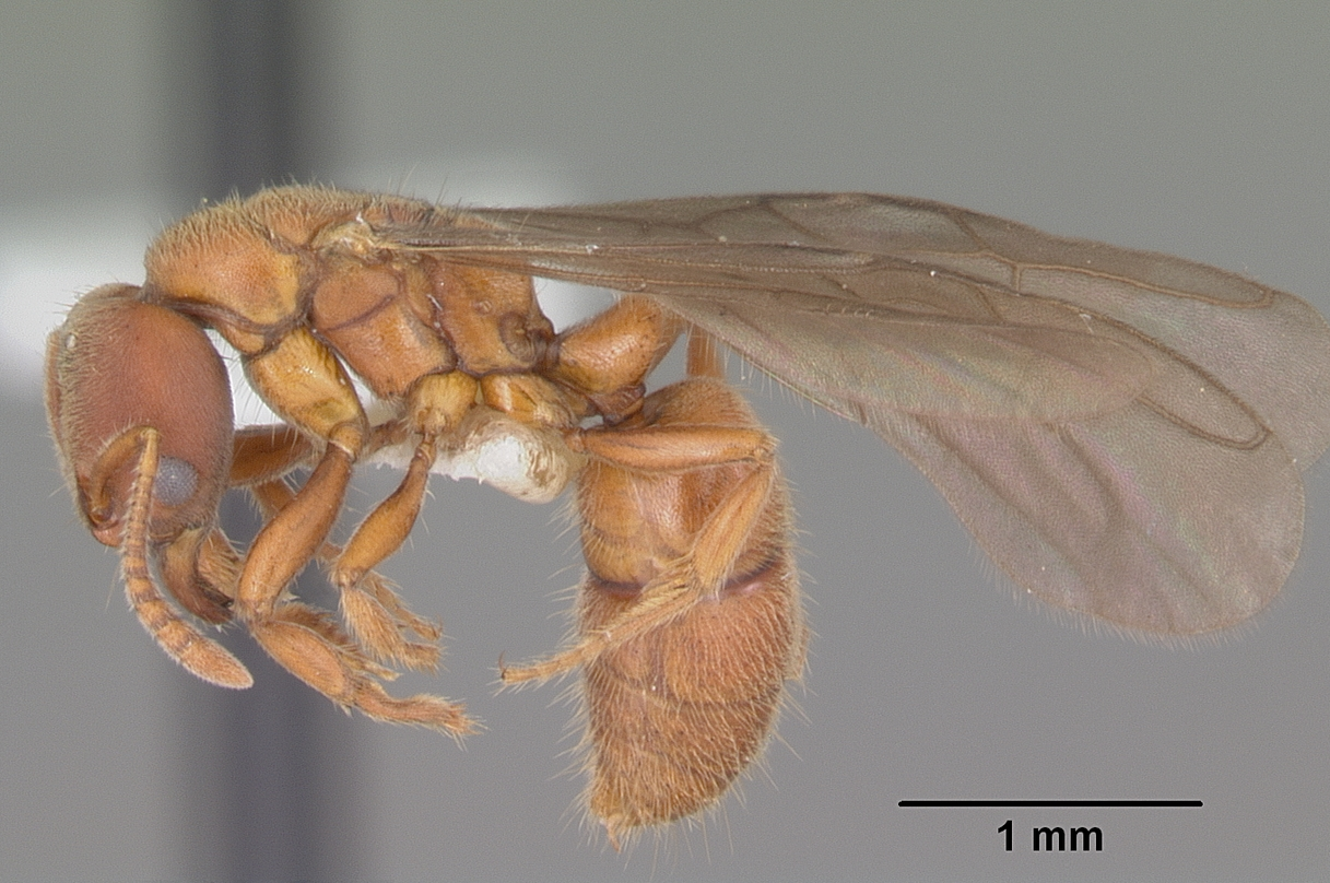 Profile view of ant Cryptopone gilva specimen casent0104163.